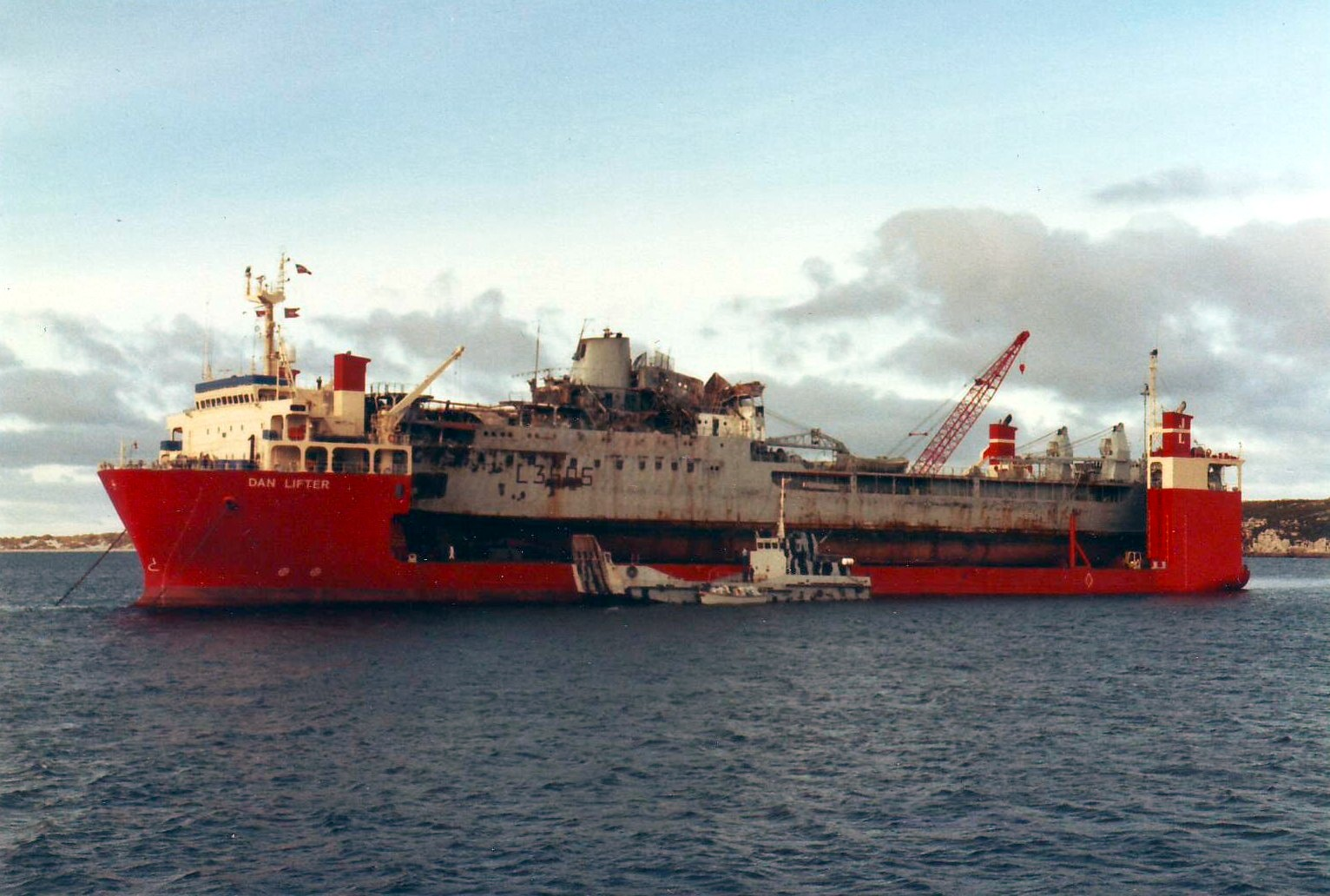 RFA Sir Tristram & MV Dan Lifter. Sir Tristram getting a ride home after the Falklands war Information about MV Dan Lifter may be found at IMO 8106068. A ship can change name and flag state through time, but the IMO number remains the same through the hull's entire lifetime. As a result, it can be useful to identify a ship by using the IMO number.